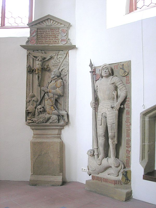 Ebern (Landkreis Haßberge, Lower Franconia, Germany). Parish church St. Laurentius. Epitaphs of Hans von Rotenhan (left) and Reichart von Lichtenstein (16th century)